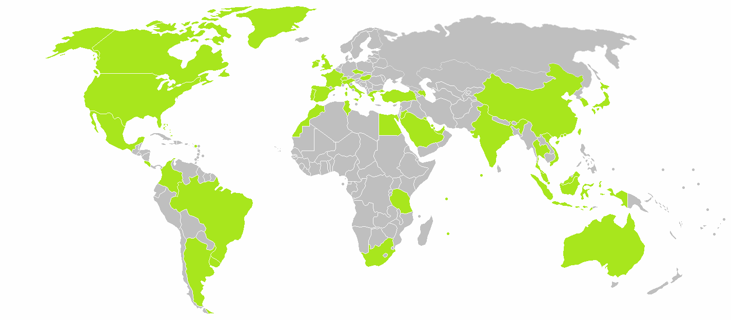 Four Seasons Hotel around the world